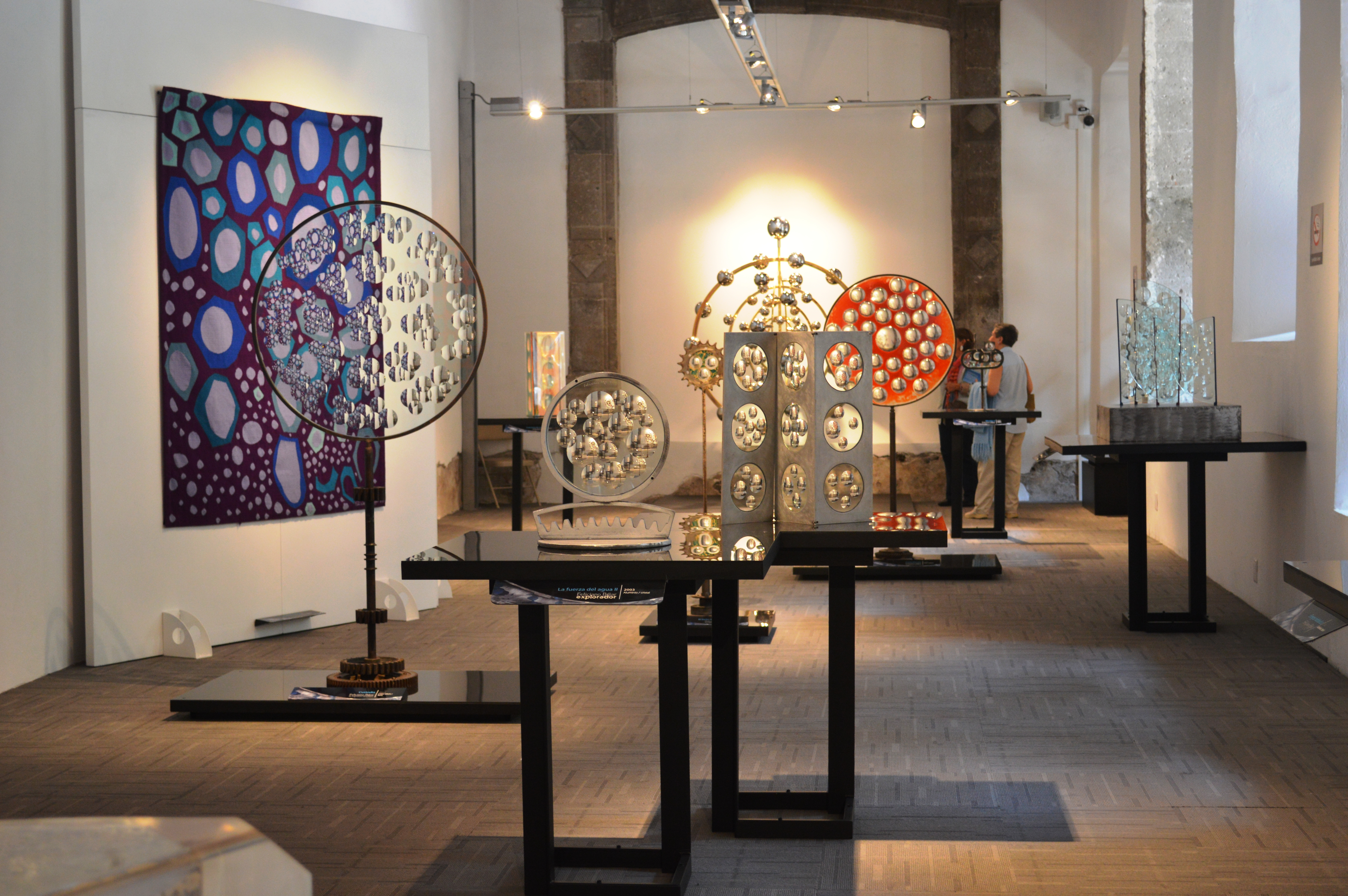 Feliciano Béjar exhibition "Explorador" at the Museo de la Luz in Mexico City